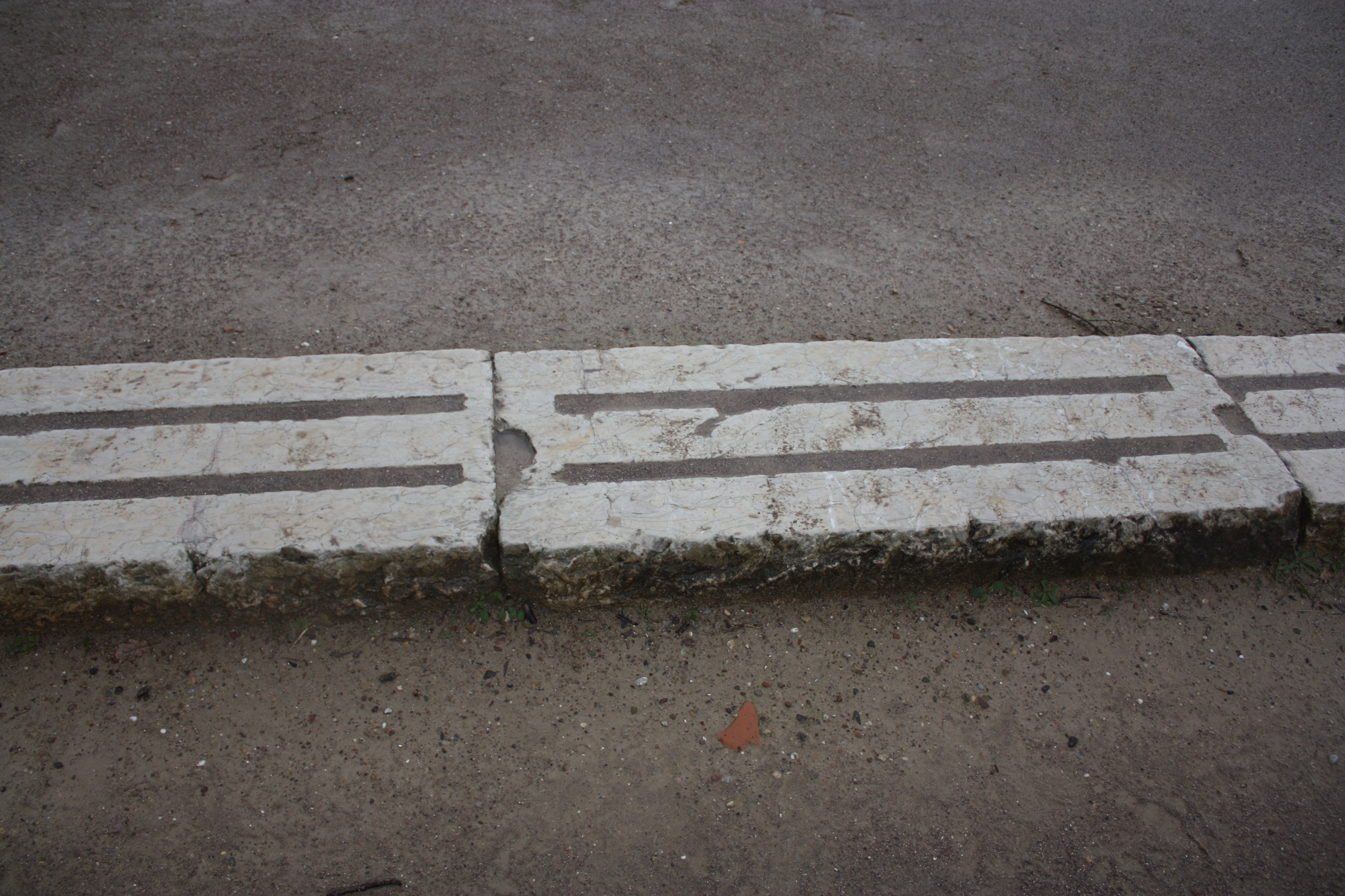 Starting line in the stadium in Olympia, Greece.